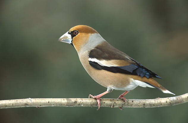 Coccothraustes coccothraustes